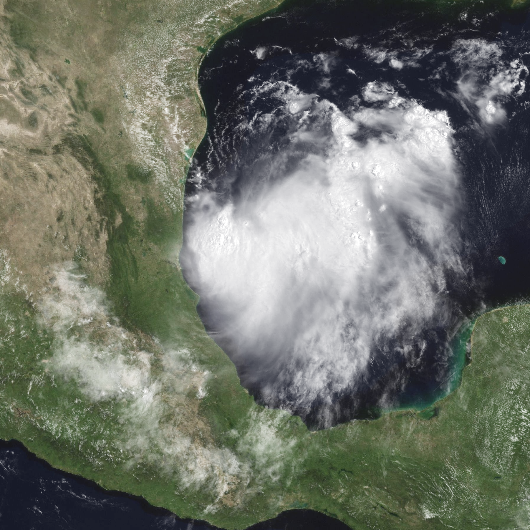 Tropical Storm Beryl near peak intensity in the Bay of Campeche on August 14, 2000